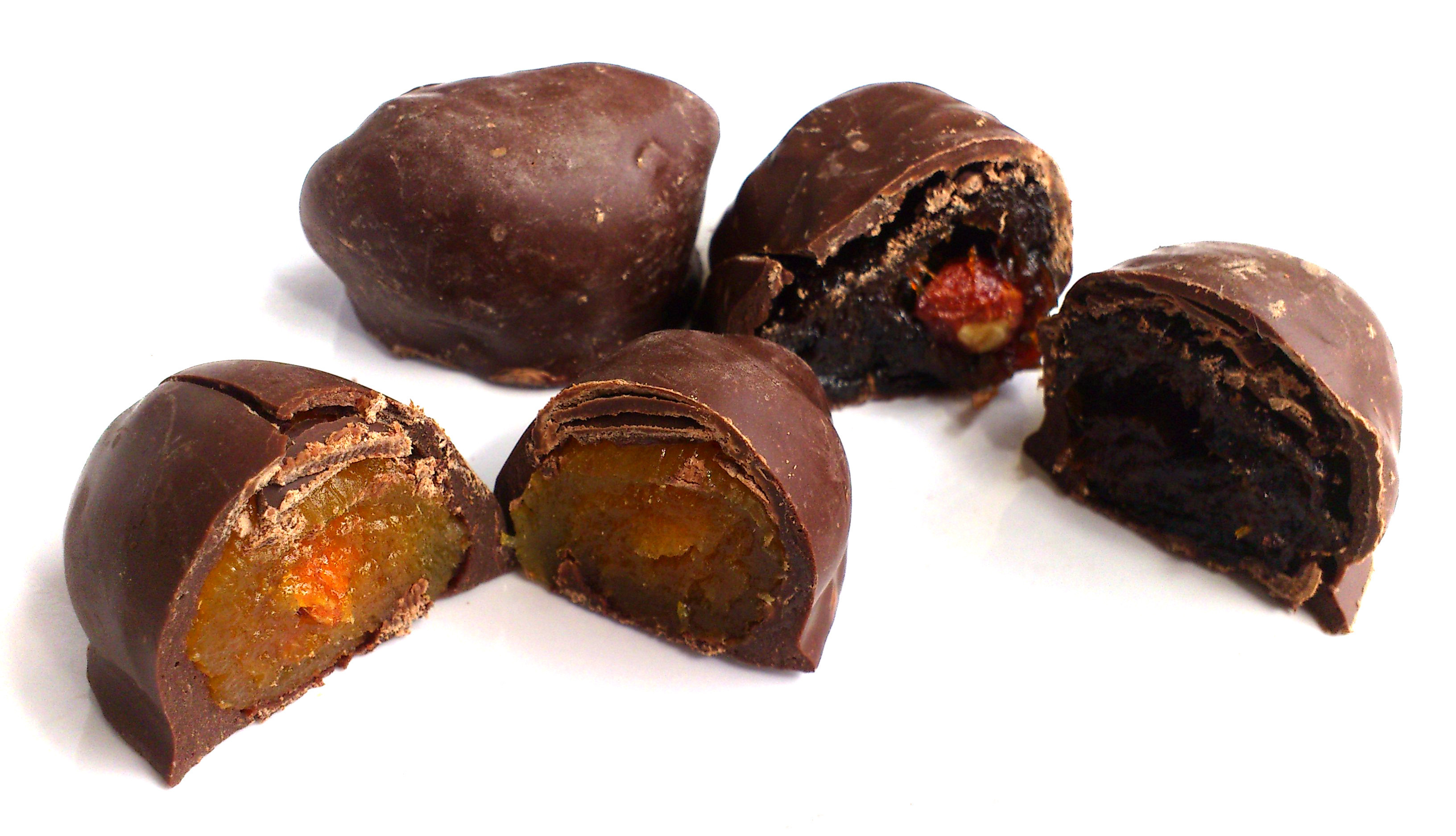 Chocolate-coated dried fruits (apricots and plums; with a nut in the middle), Russian confectionery